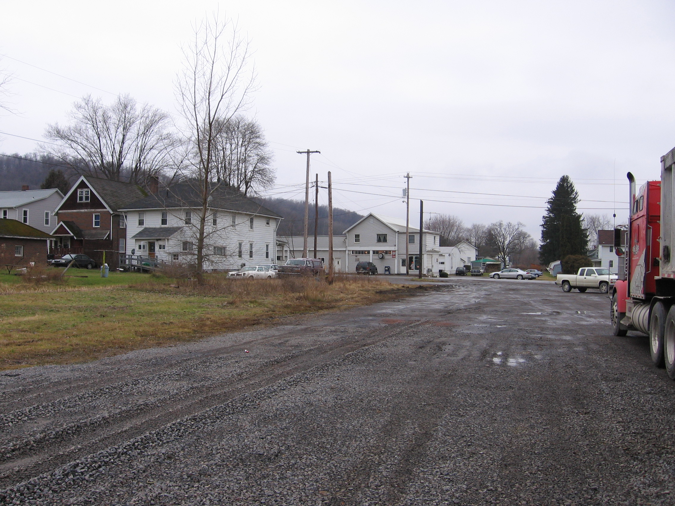 A downtown view of Boyers. Photo taken by Mvincec on 21 December, 2006. The extremely rare Pontiac Astre seen near the center of the photograph suggests that history is preserved both above and below the streets of this community in the Pennsylvania hills.